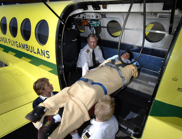 Beechcraft Super King Air plane, operated by Svensk Flygambulans AB